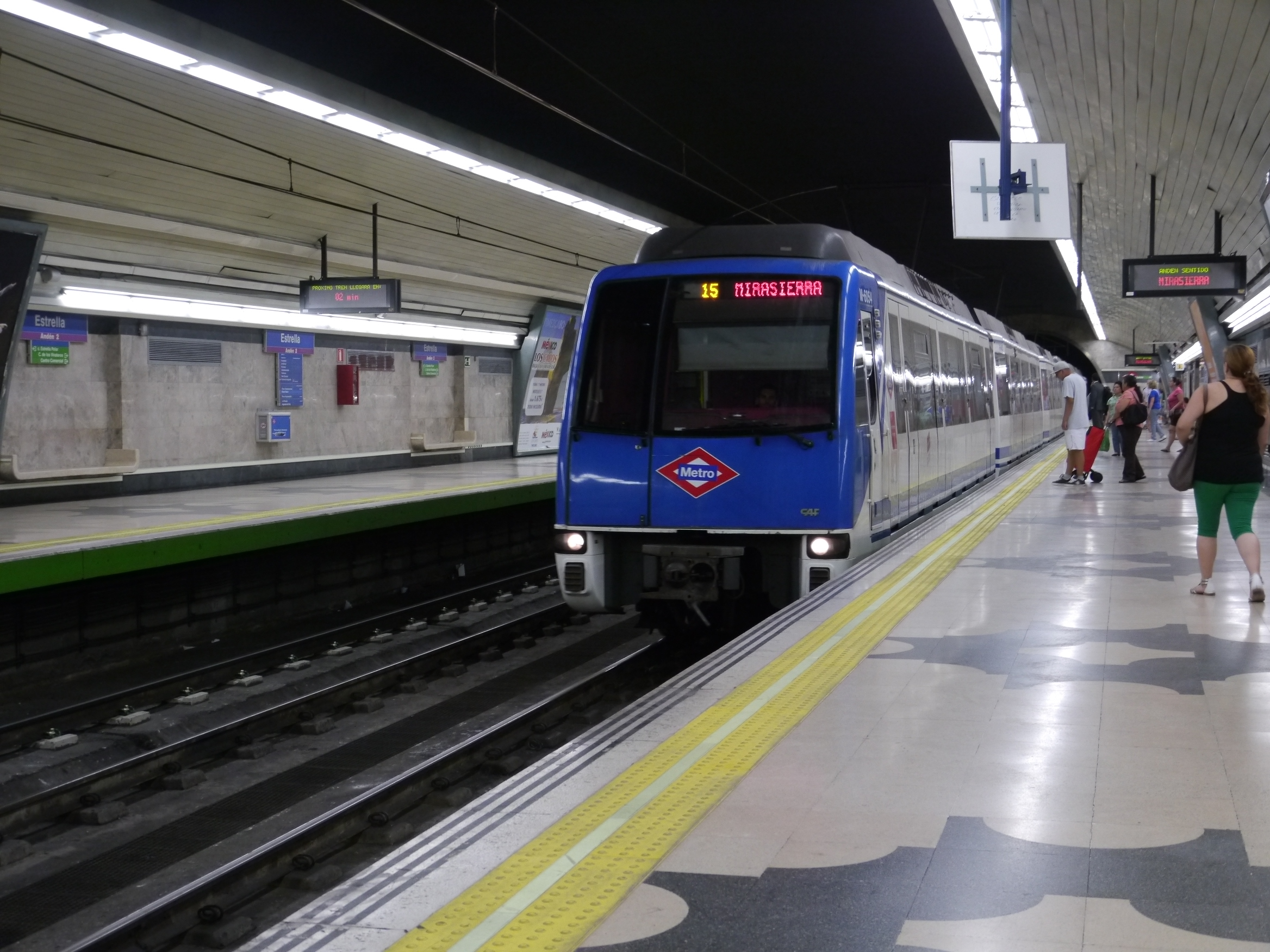 A Madrid Metro CAF 6000 arriving at Estrella station.